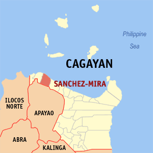 Map of Cagayan showing the location of Sanchez-Mira